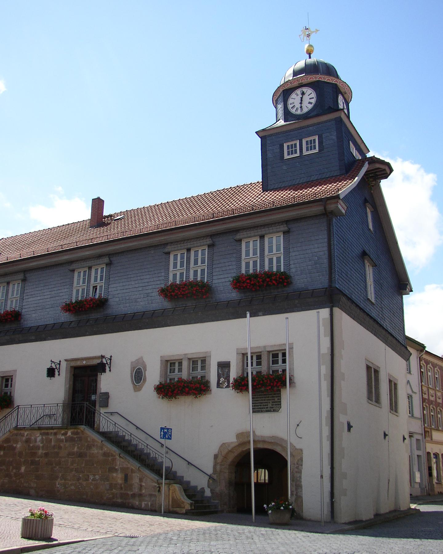 Town hall in Bleicherode in Thuringia, Germany